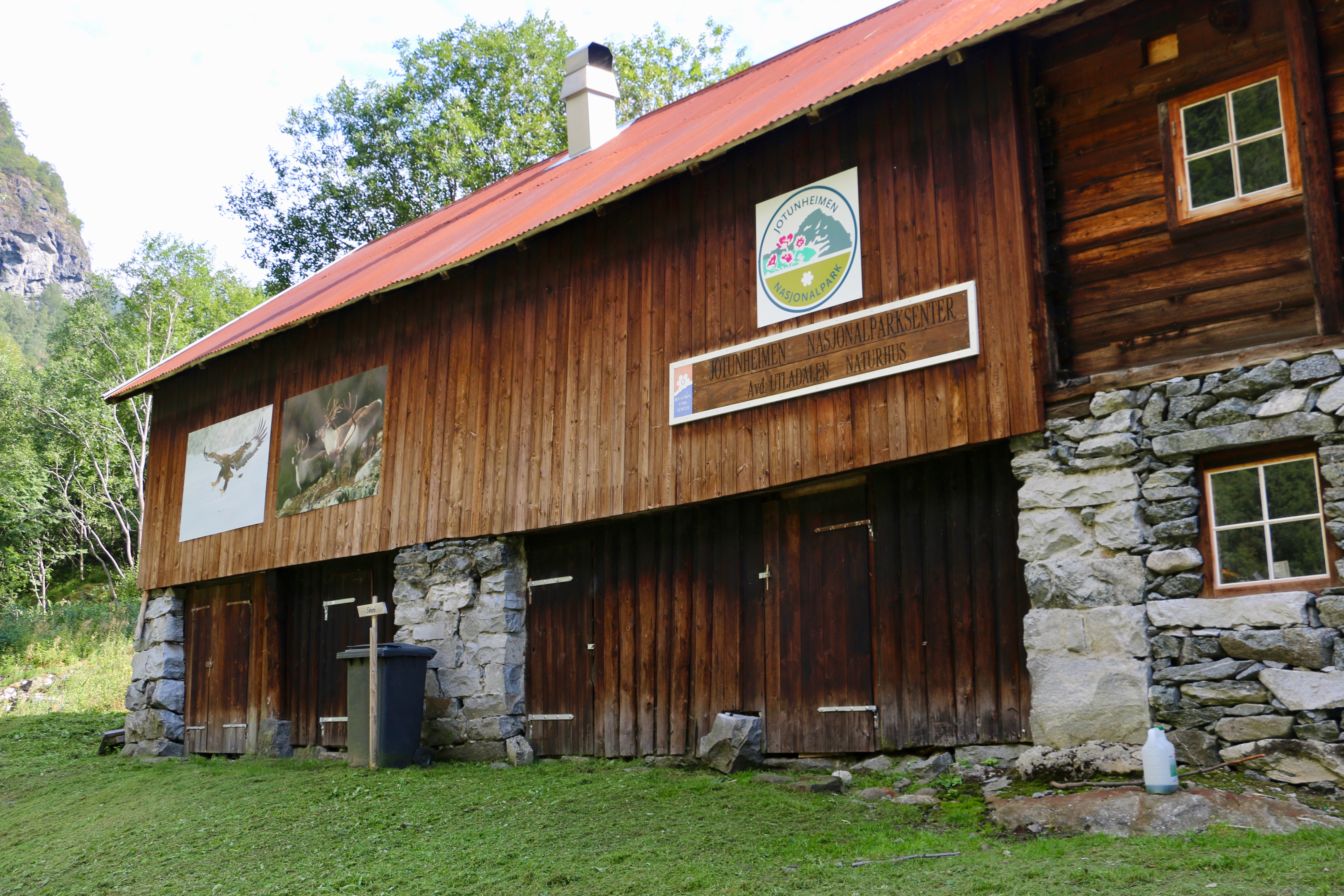 Utladalen naturhus, with Jotunheimen national park center